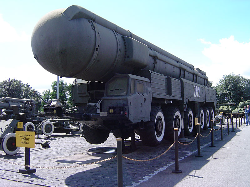 A Soviet SS-20 IRBM, on display near the Great Patriotic War Museum, Kiev. Image by ChrisO, August 2005